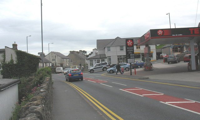 The crossroads at the centre of Benllech